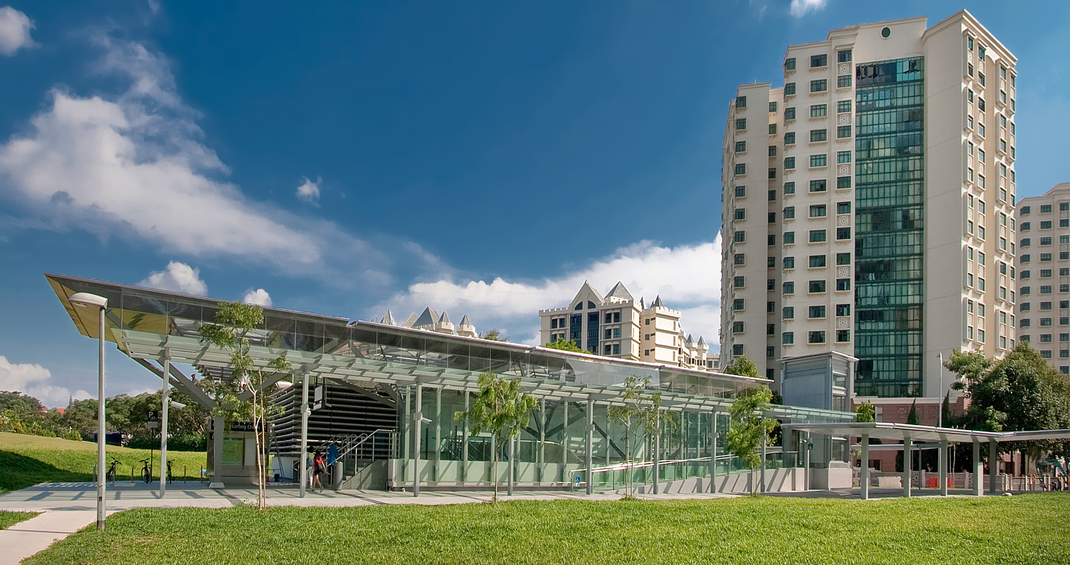 Lorong Chuan MRT with surrounding condos